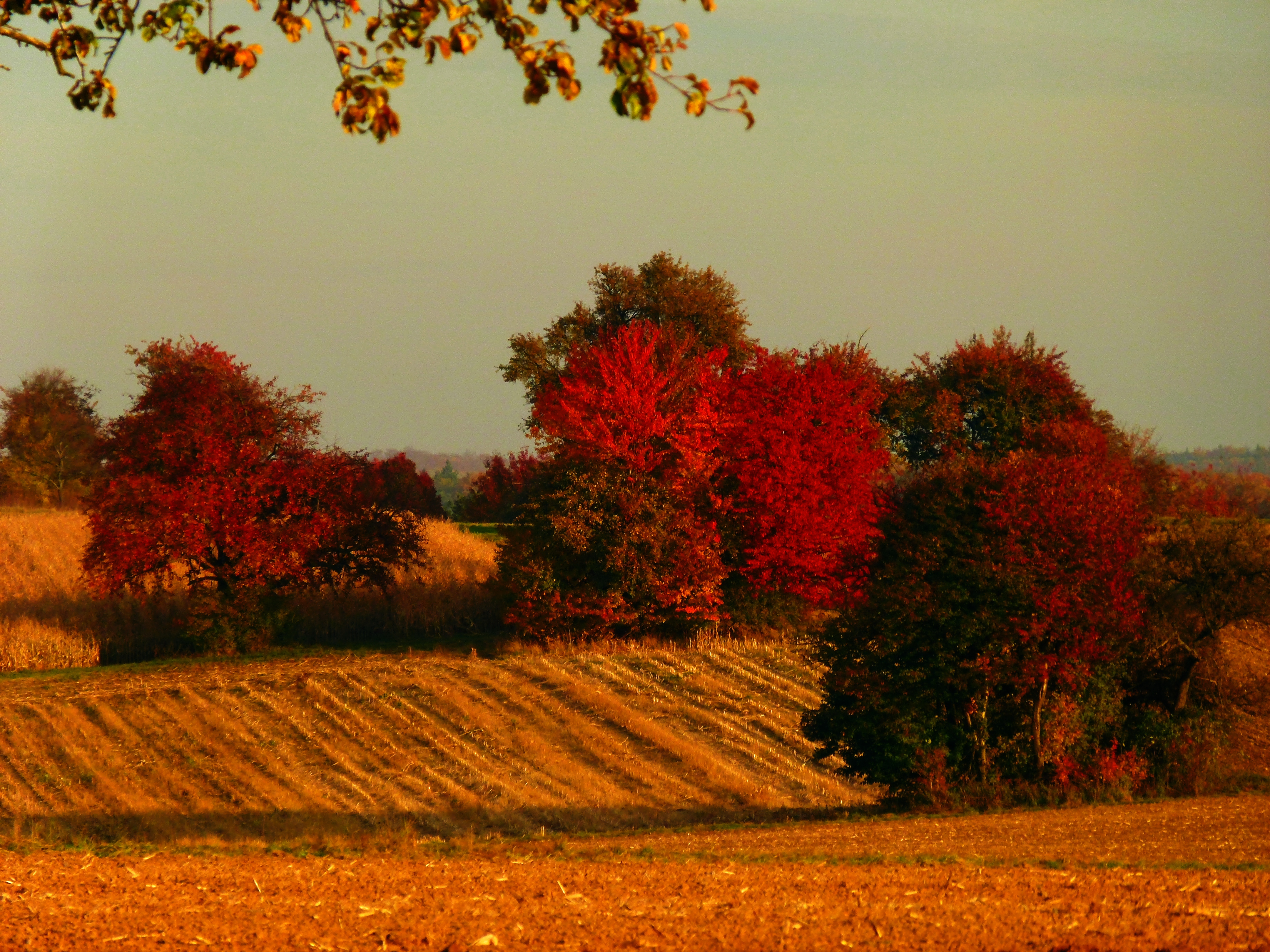 Autumn In The Fields